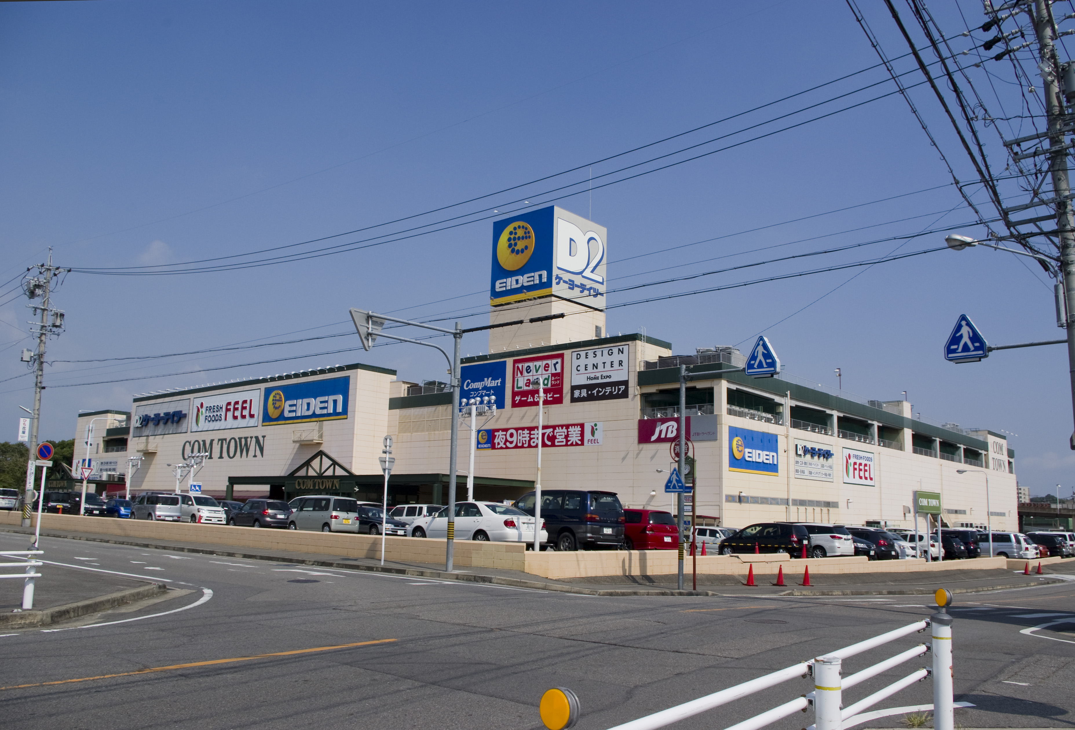 "COM TOWN" in Okazaki, Aichi, Japan